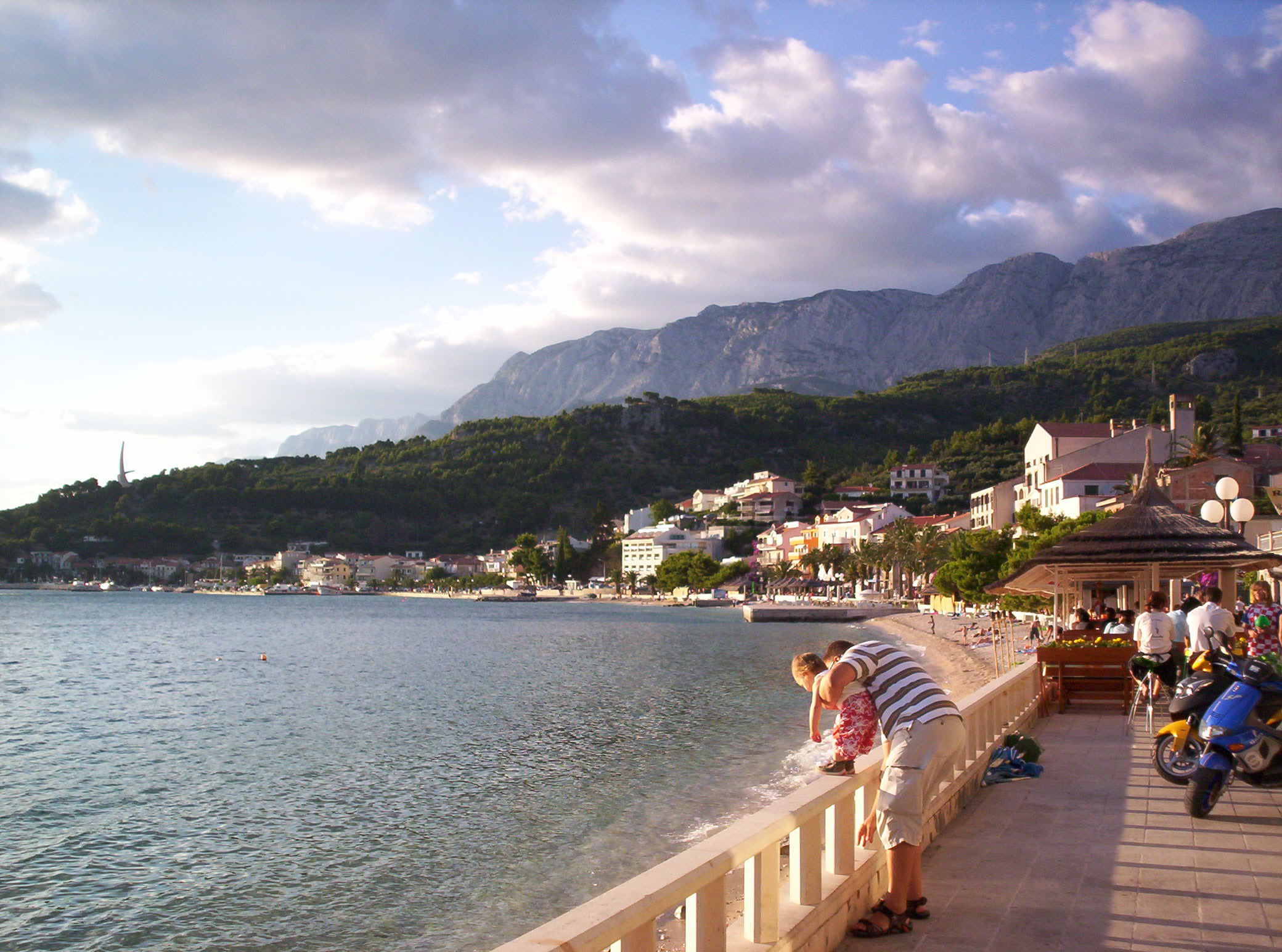 Main view on Podgora.